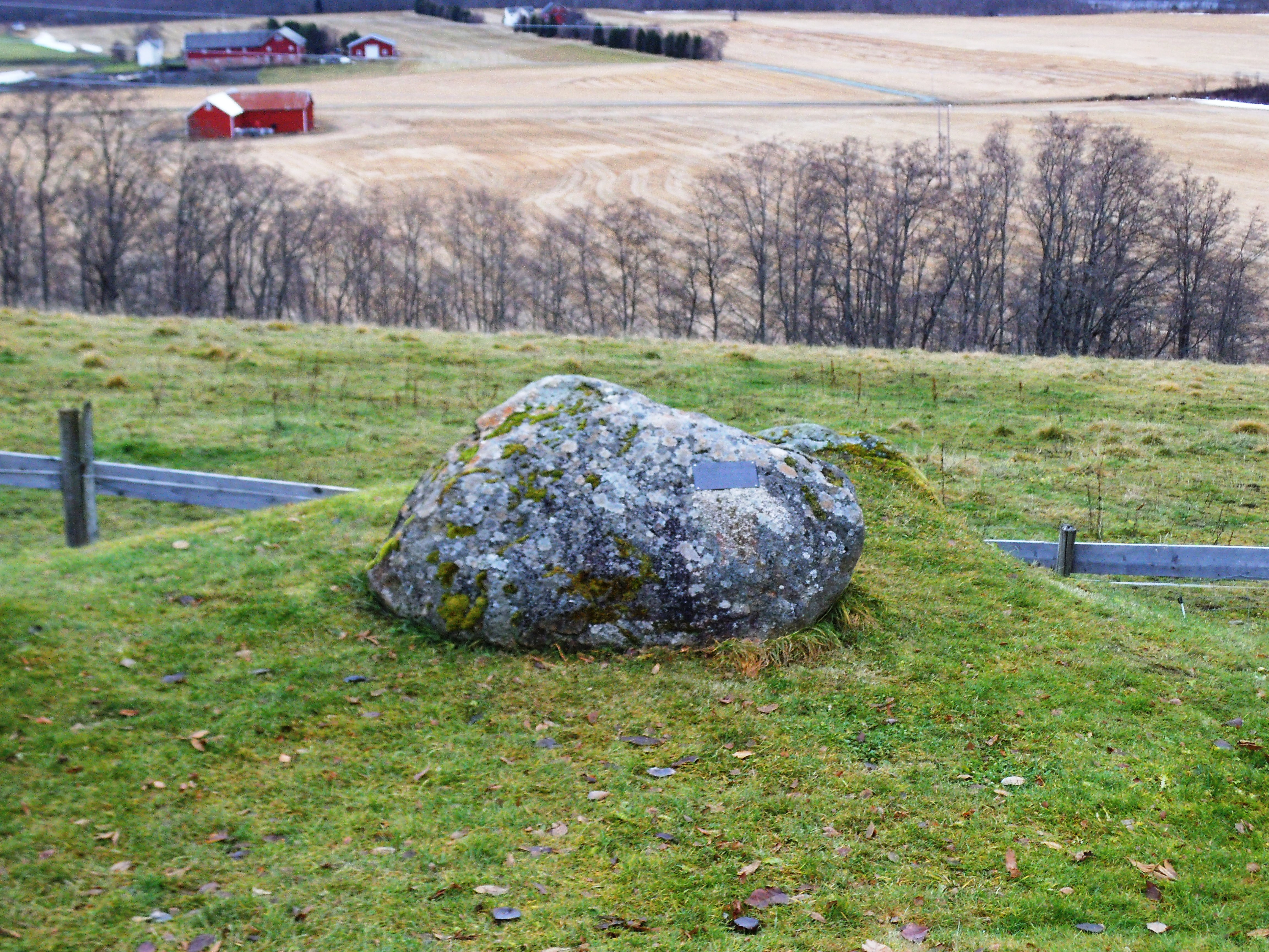 The stone in Rimol, Melhus. The stone was raised in 1995, in memory of the murder on Håkon jarl.